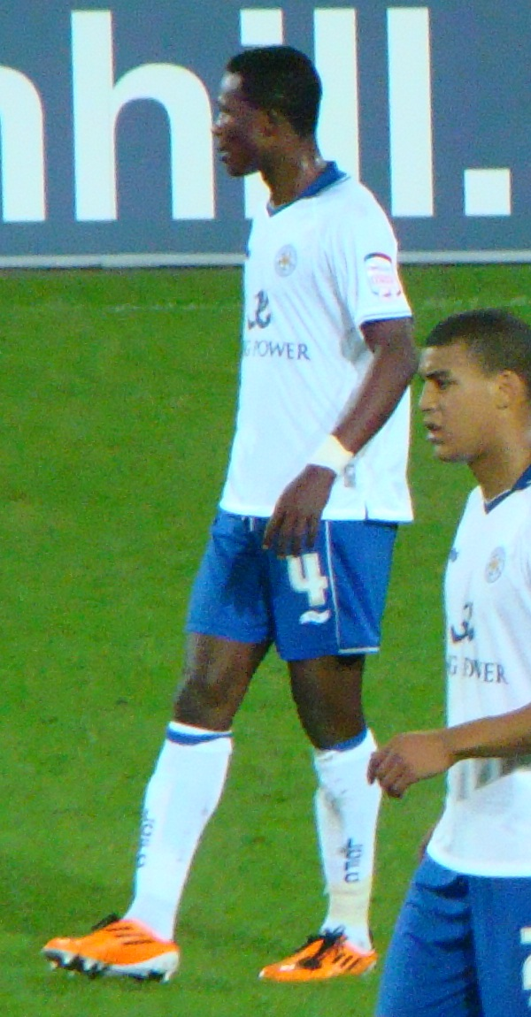 21/09/11 Cardiff V Leicester, Football League Cup, Cardiff City Stadium, Cardiff, Wales